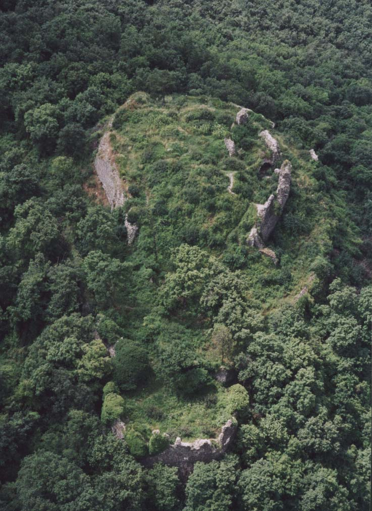 Castle - Buják - Hungary - Europe